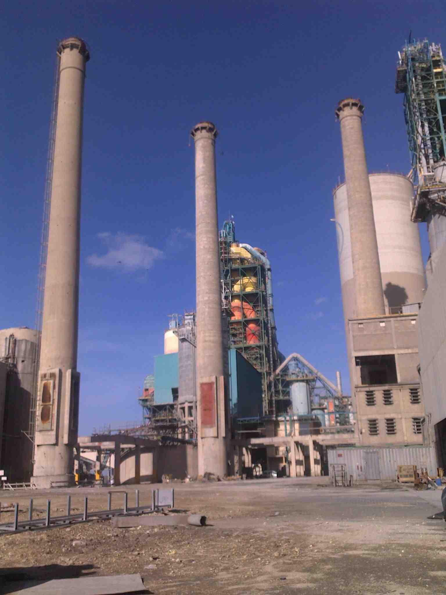 3 chimneys demolished in Israel in 2010. tallest structures to be demolished in Israel.